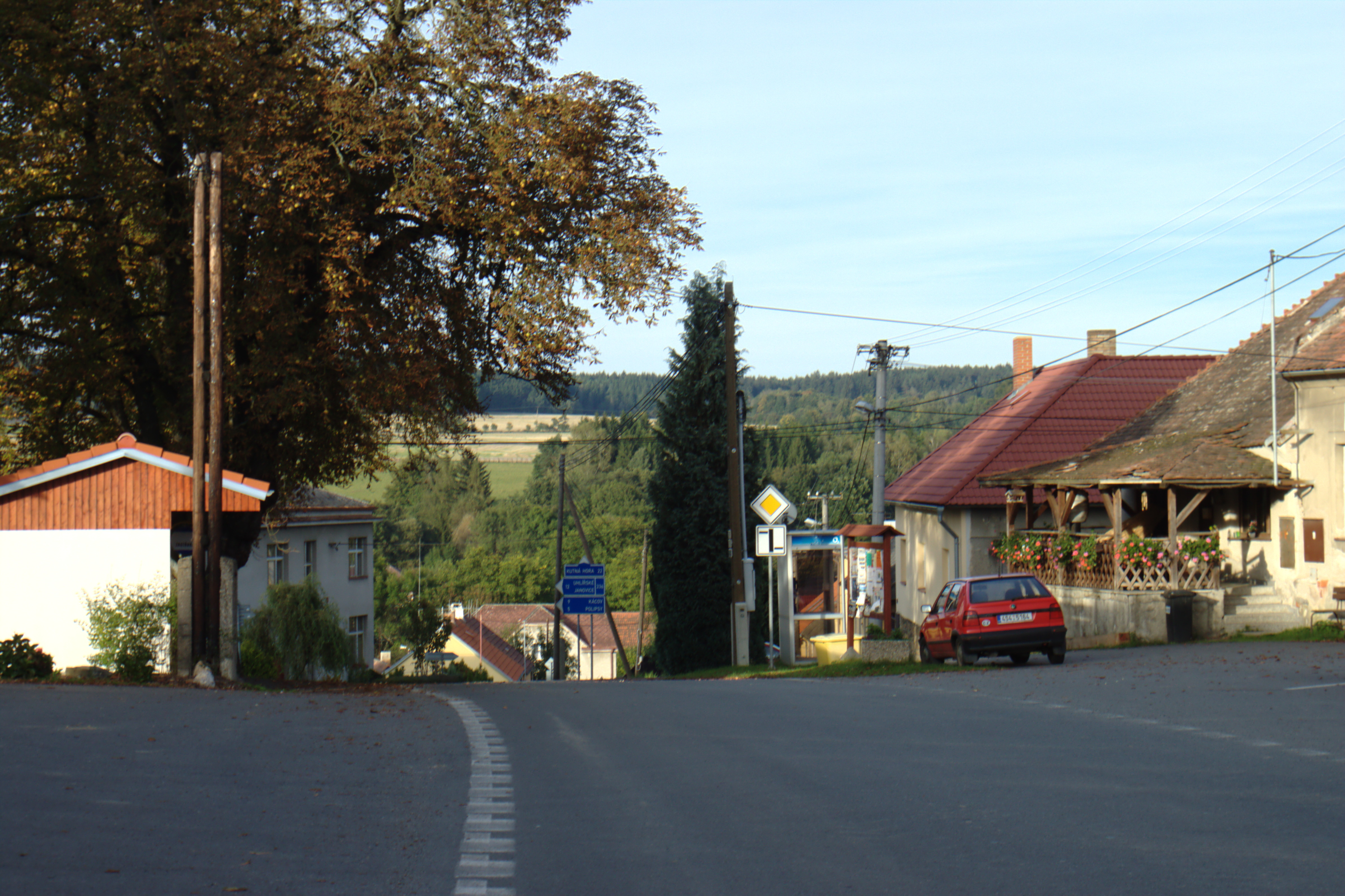 Main common in the town of Čestín, Central Bohemia, CZ